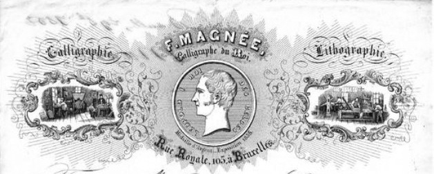 Heading of an invoice by François Magnée, royal calligrapher in Belgium